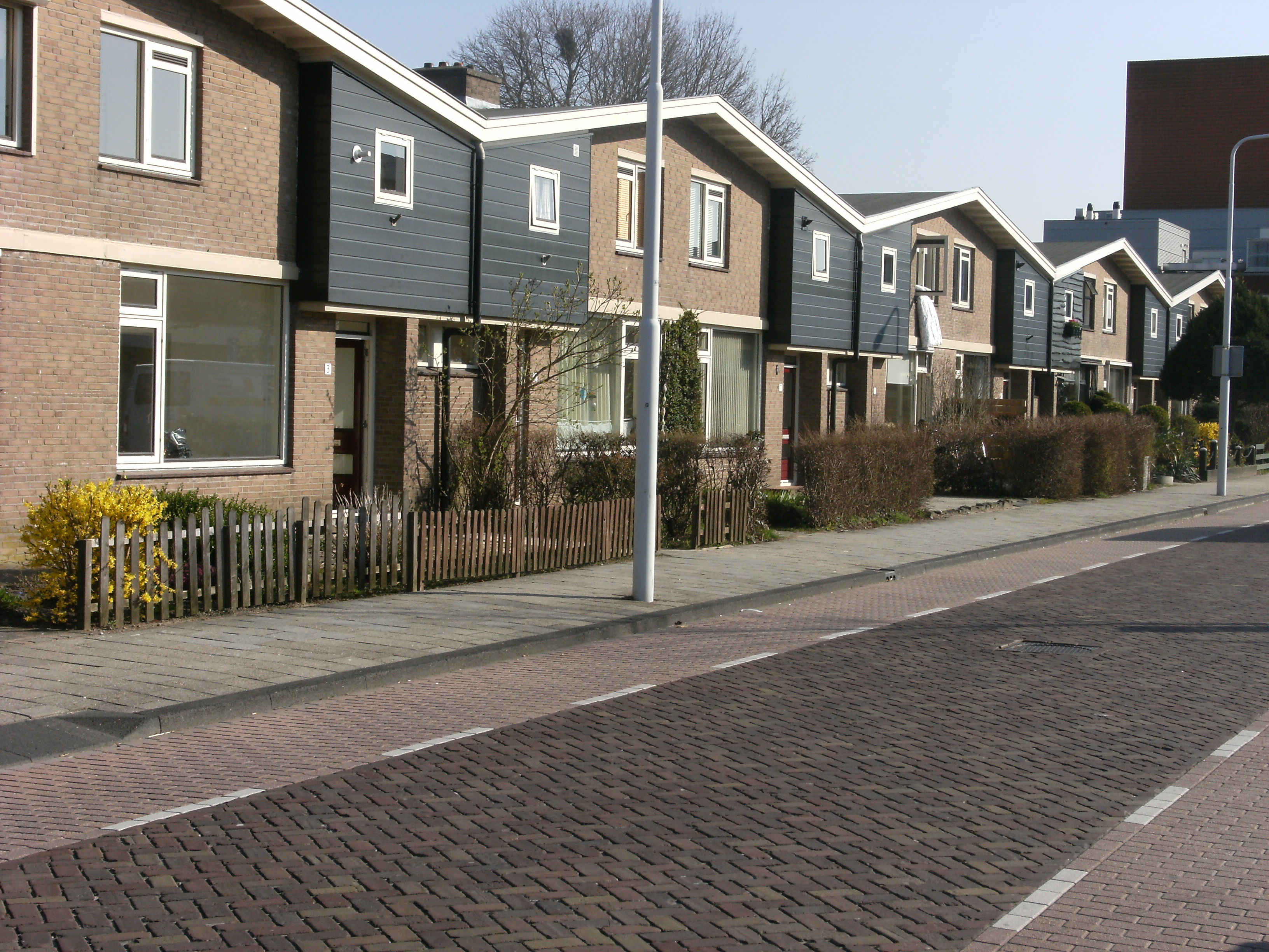 Row of houses; street in Dronten.